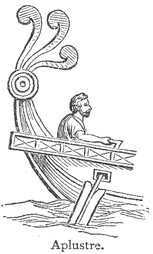 Illustration from 1908 Chambers's Twentieth Century. Aplustre, n. the ornament rising above the stern of ancient ships, often a sheaf of volutes.